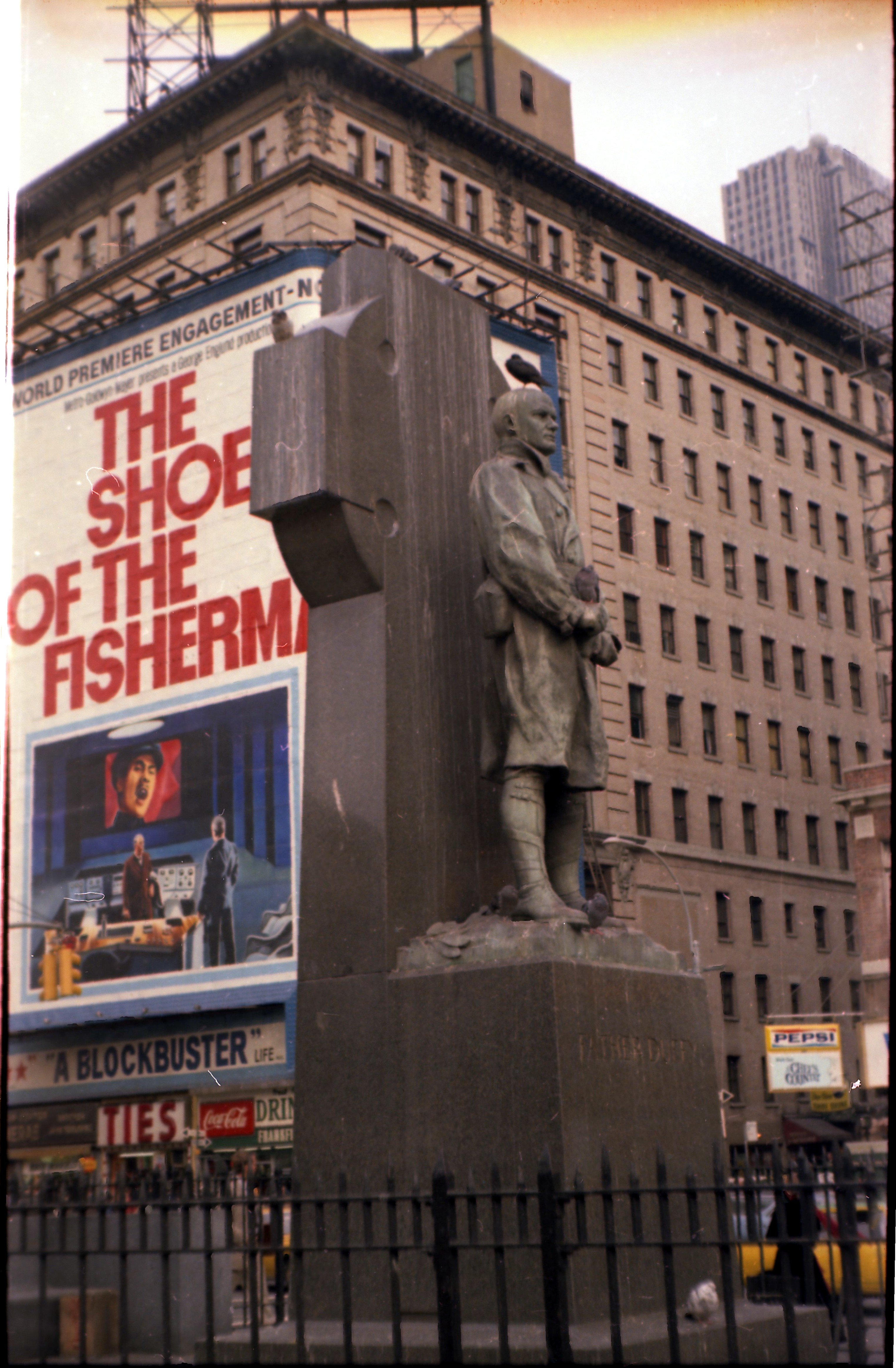 Photo of Times Square / Duffy Square in New York with a banner of the movie Shoes of the Fisherman in background.